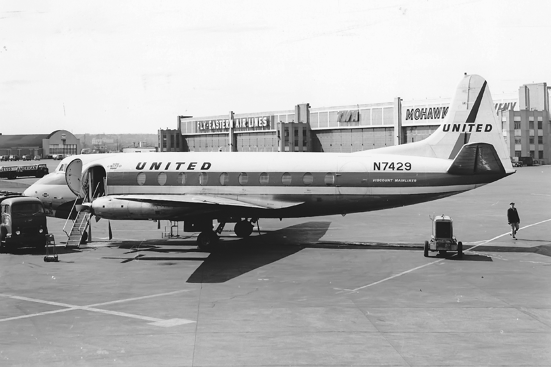 LGA - Scanned from print